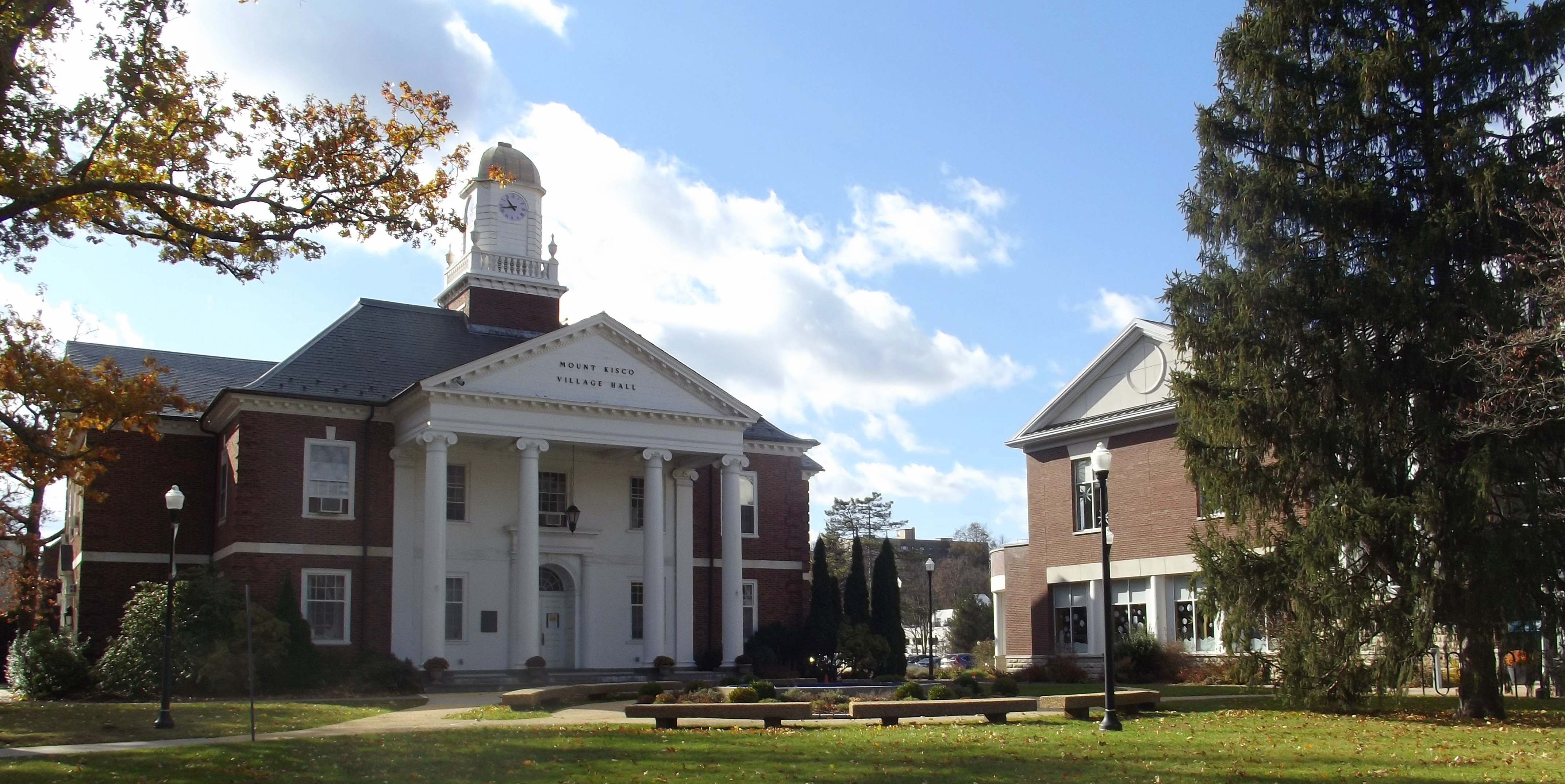 A view of Mount Kisco Town Hall on a mid-autumn day.